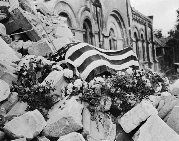 body of Major Thomas Howie in St Lo, France